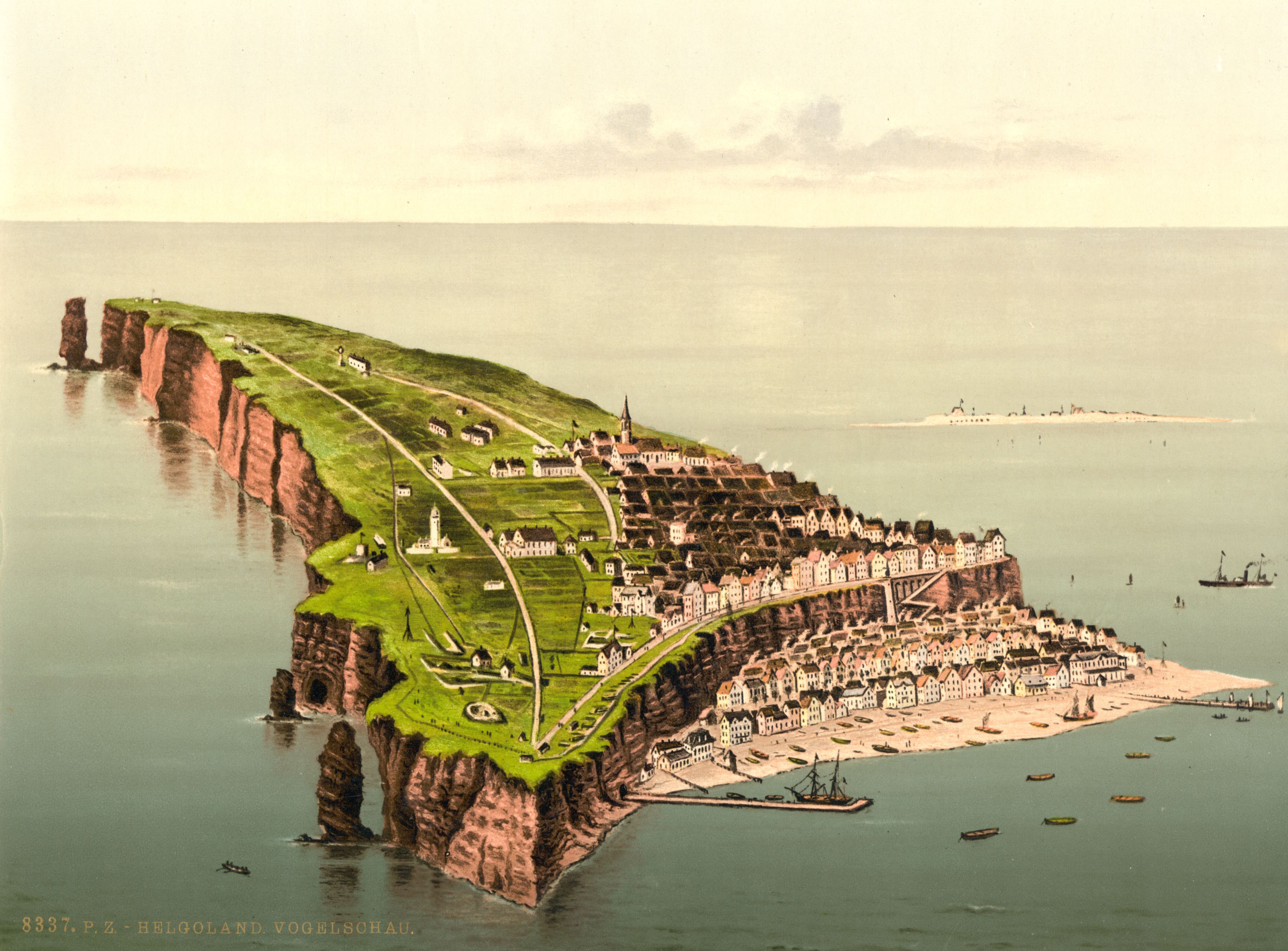 Birdseye view of Heligoland, Germany.